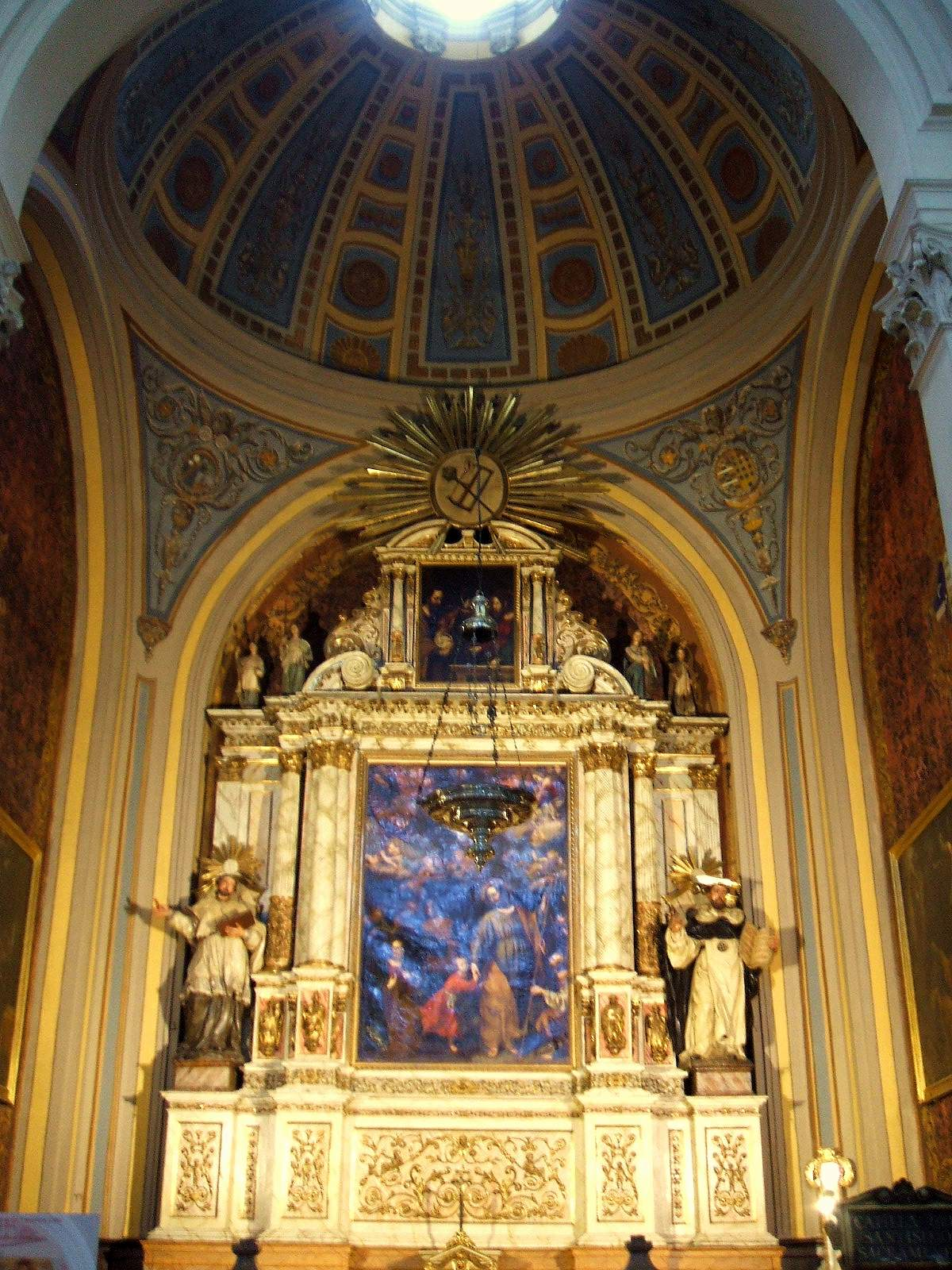 Capilla de San José, Basílica del Pilar de Zaragoza